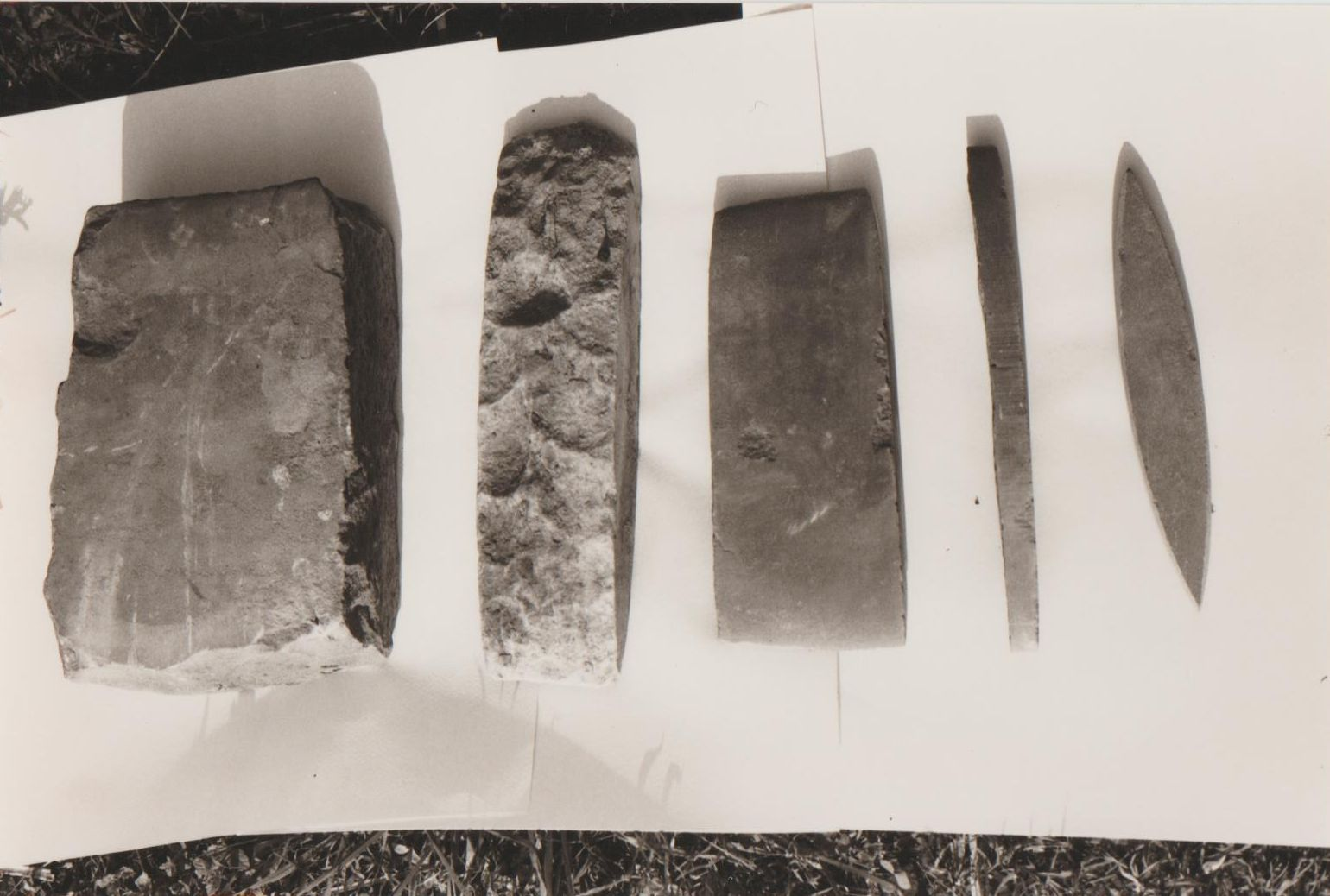 Whetstone-production in the Schwarzachtobel (in Schwarzach, Vorarlberg, Austria). From the raw material to the finished whetstone.